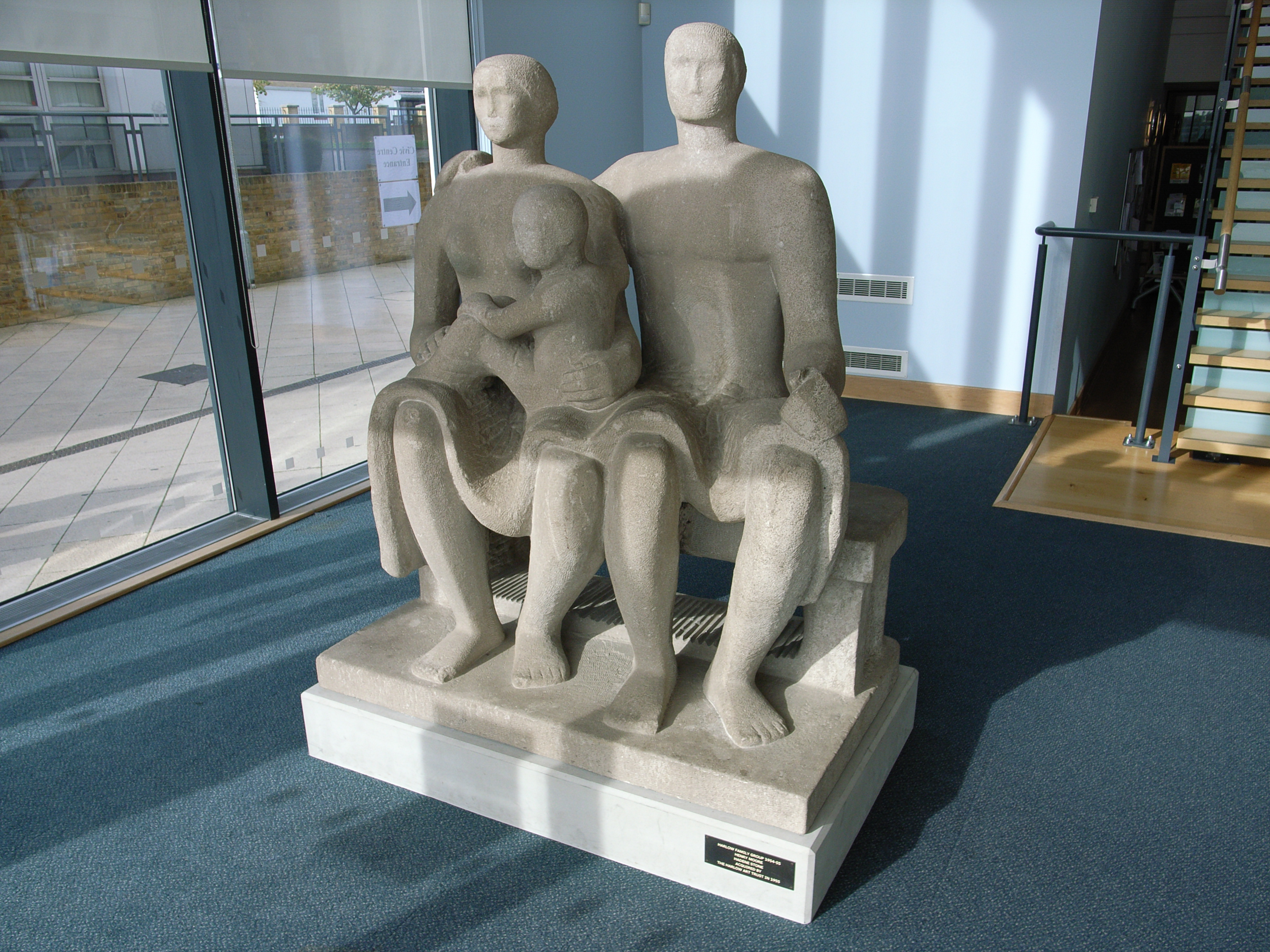 'Family Group' (1954) by Henry Moore. This was originally displayed outside the Harlow Playhouse. Photo taken on a tour of Frederick Gibberd's work in London and Harlow with the 20th Century Society.